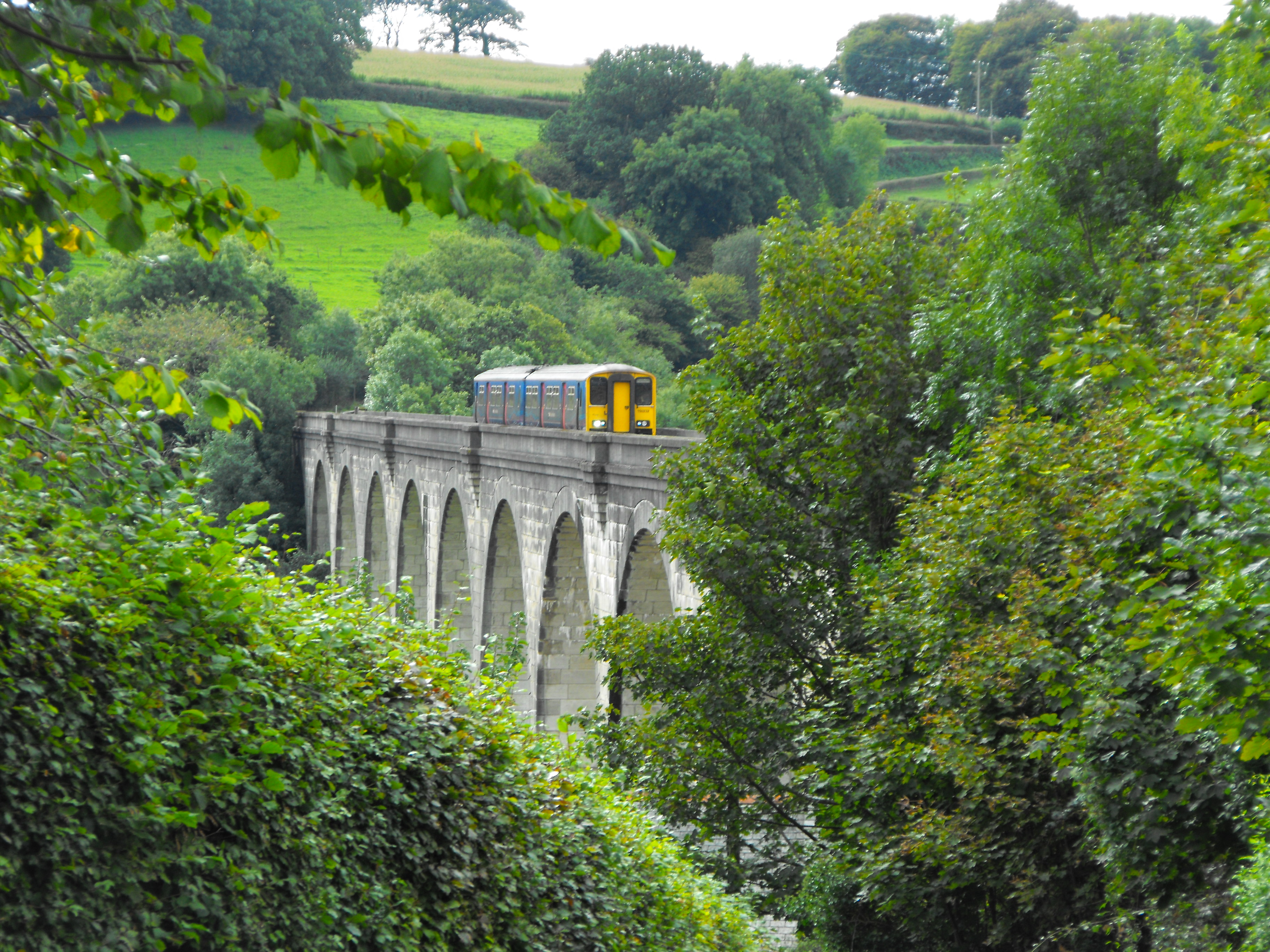 The bridge over Tamar river in Calstock (Devon)